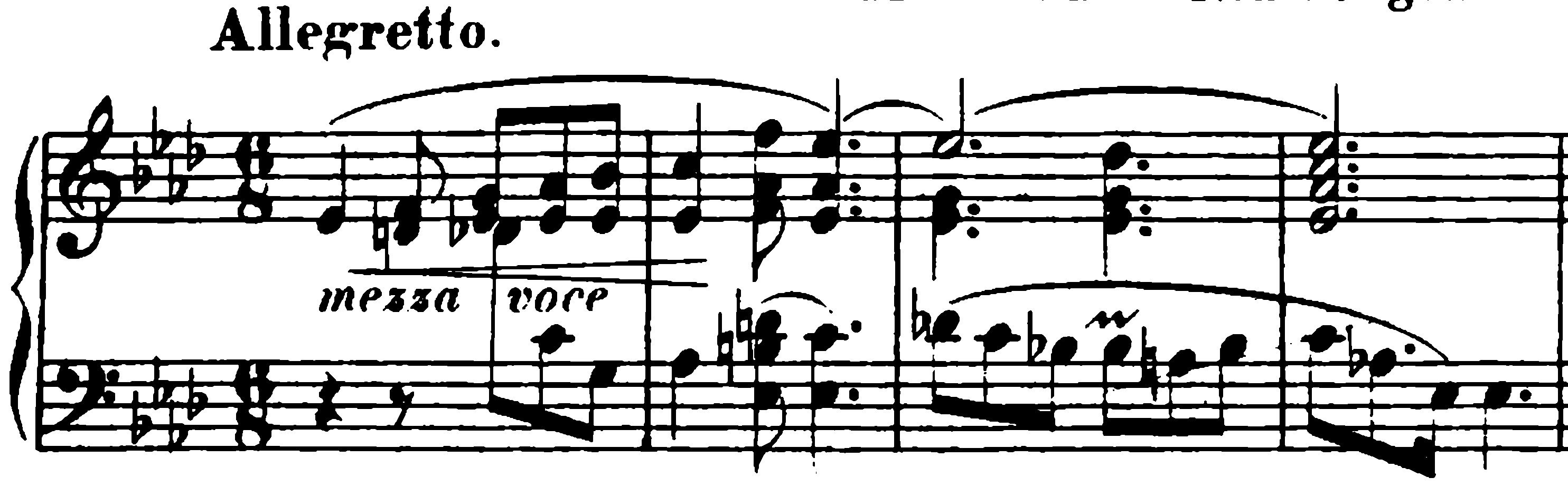 Excerpt from Chopin's Ballade No. 3, in A-flat major, Opus 47